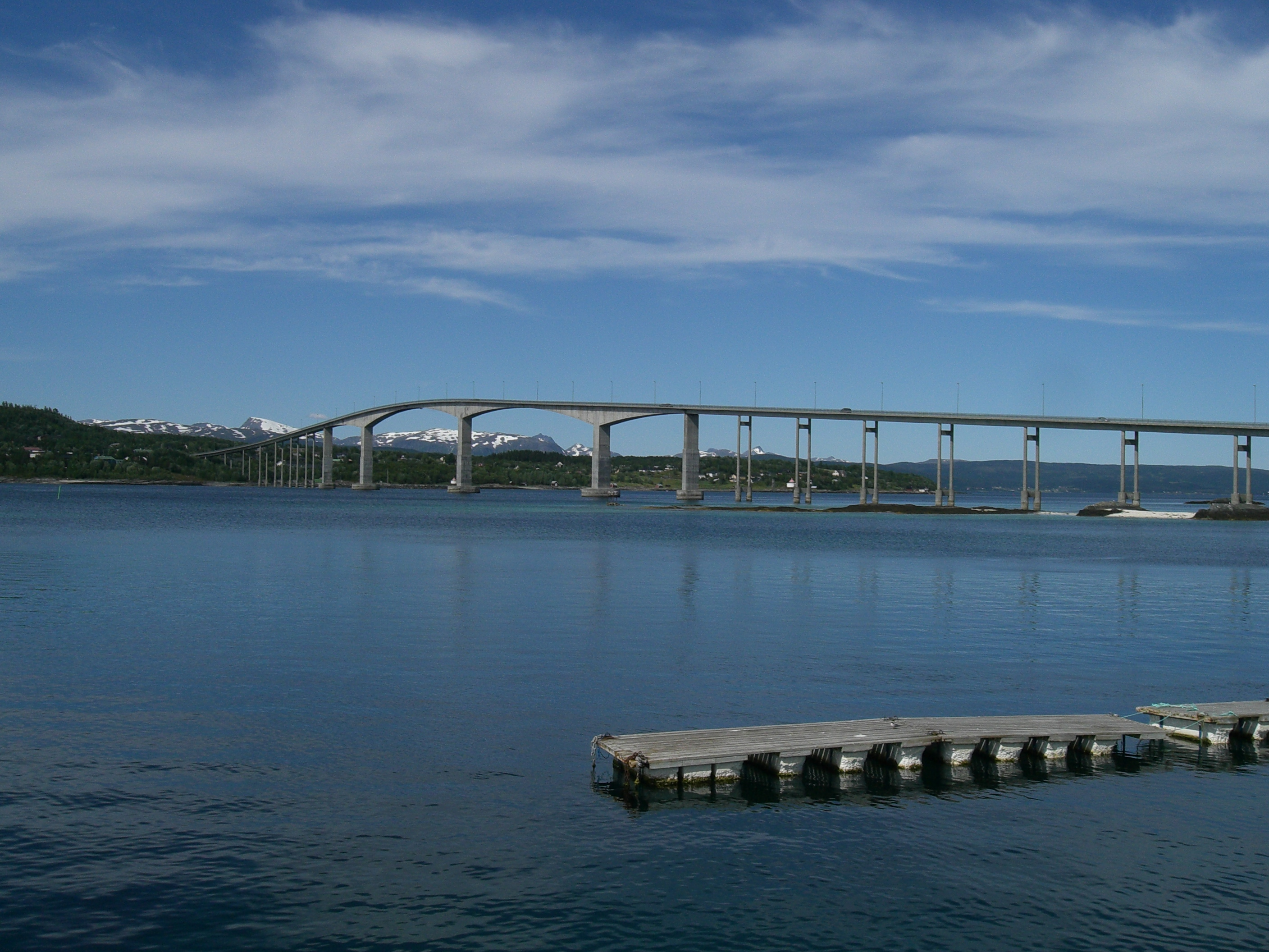 Gisundbrua bridge between Senja and Finnsnes, Lenvik, Norway.